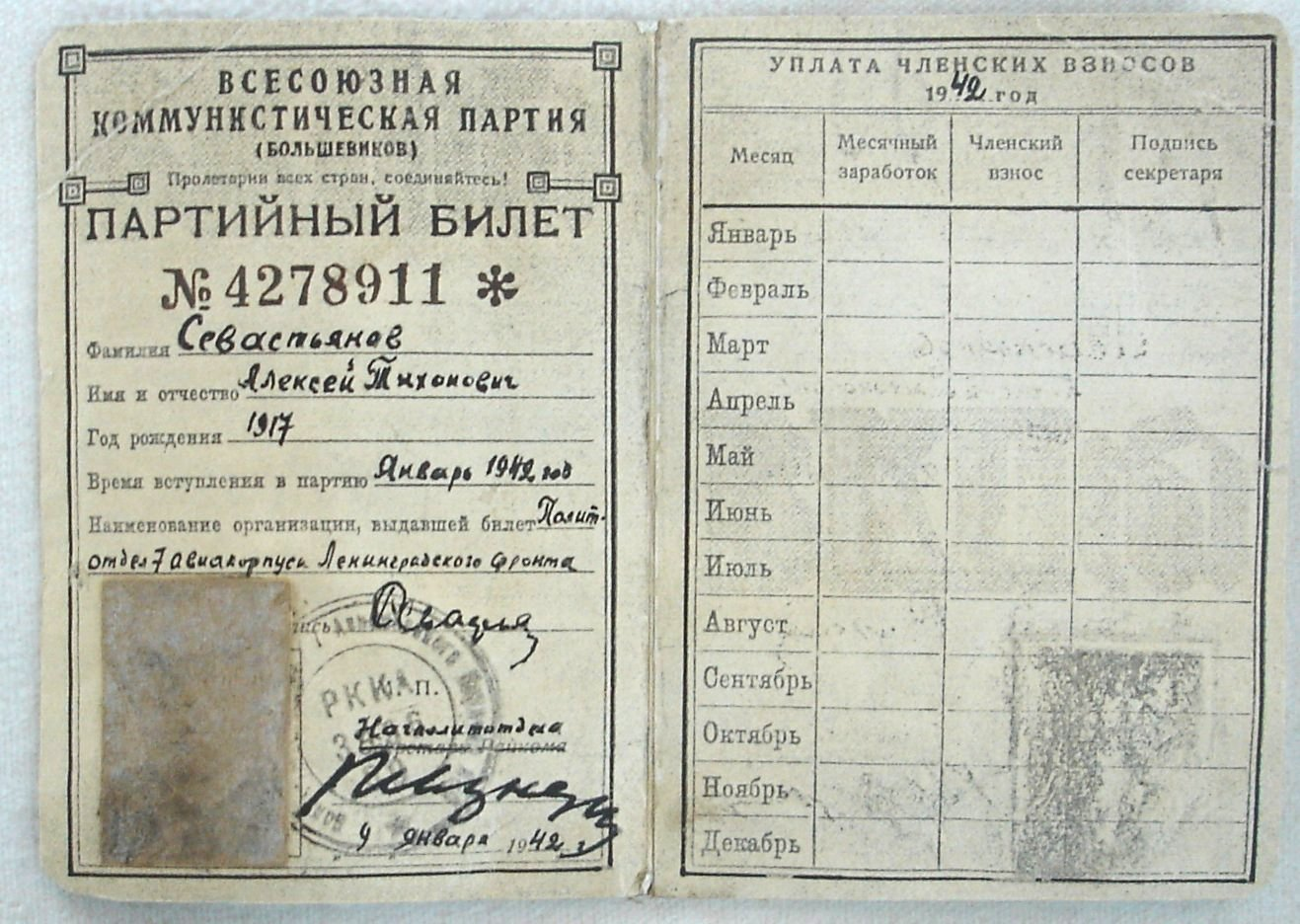 Communist Party of USSR membership card